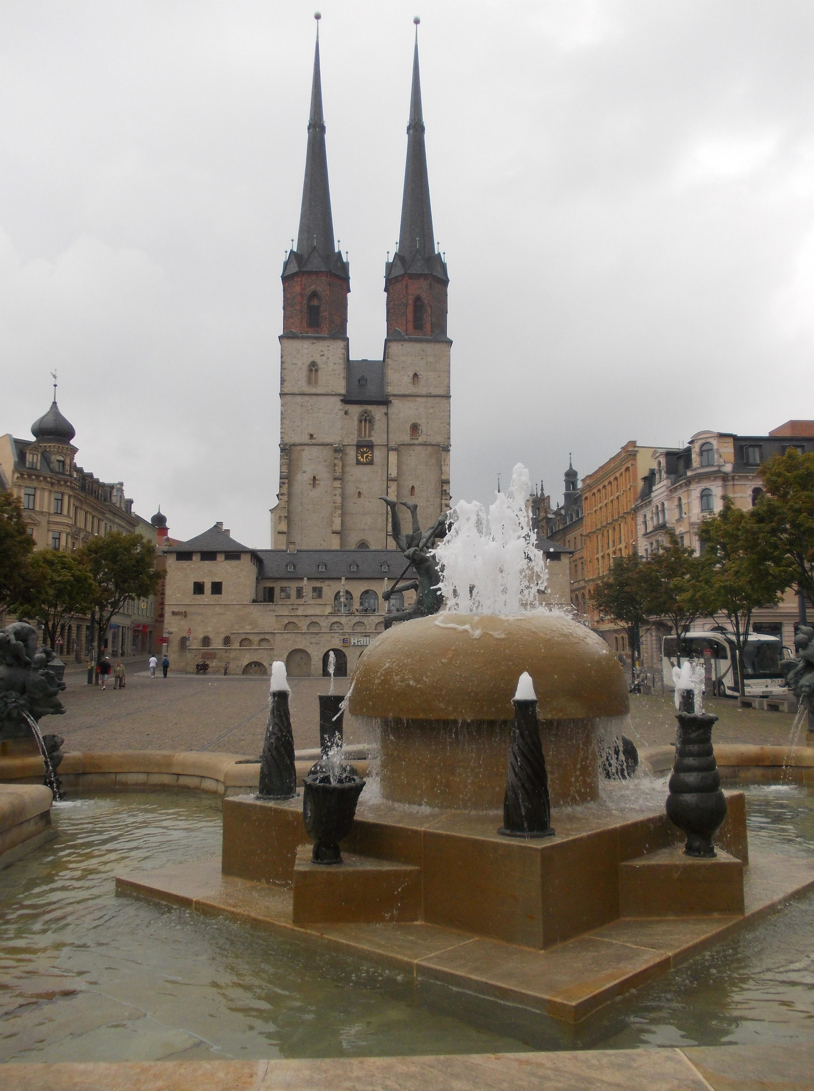 Göbel Fountain (named after its sculptor Bernd Göbel) in Hallmarkt square in Halle/Saale (Saxony-Anhalt), with the Market Church in the background